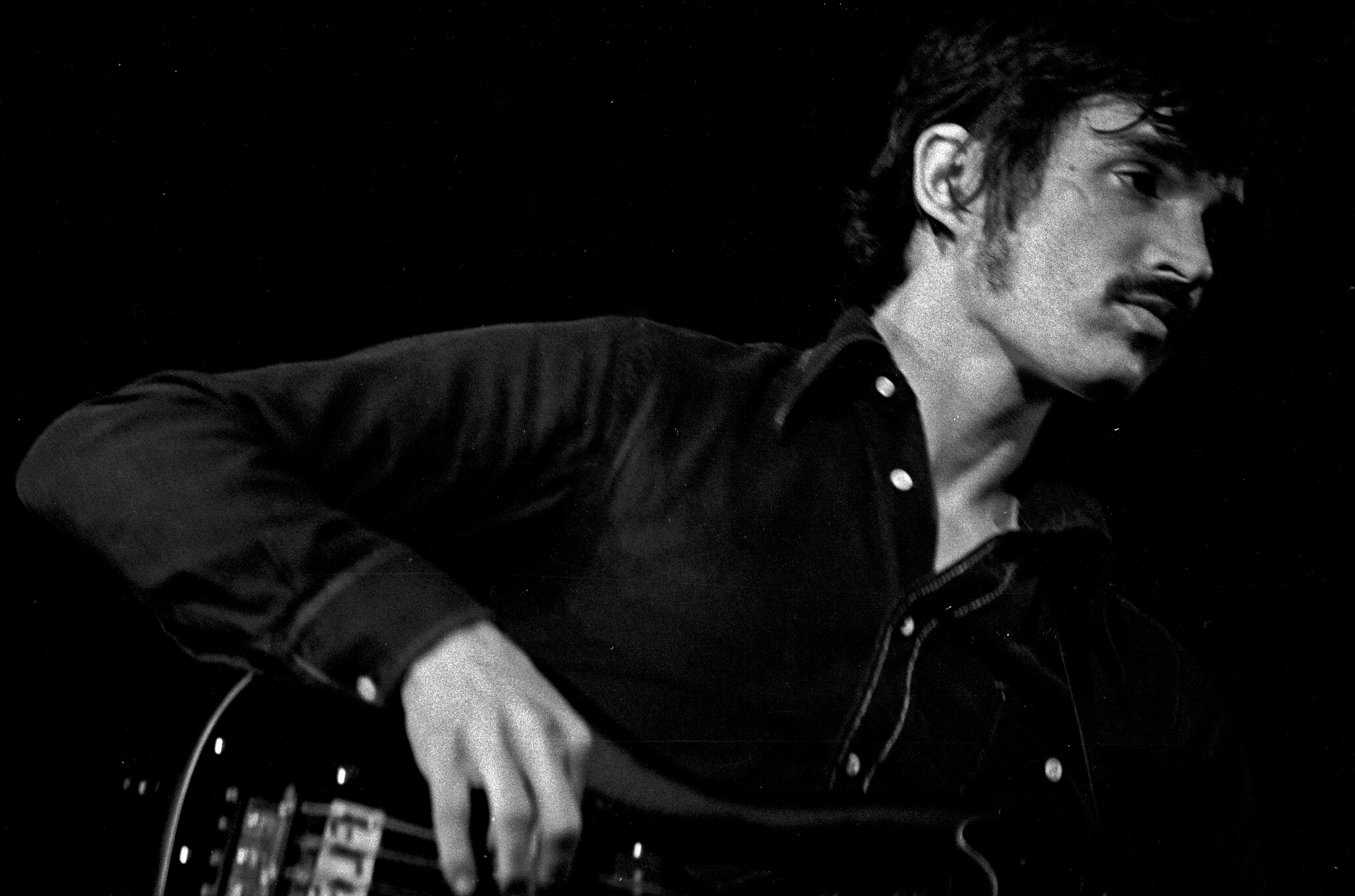 Rick Danko performing with The Band. Hamburg, May 1971